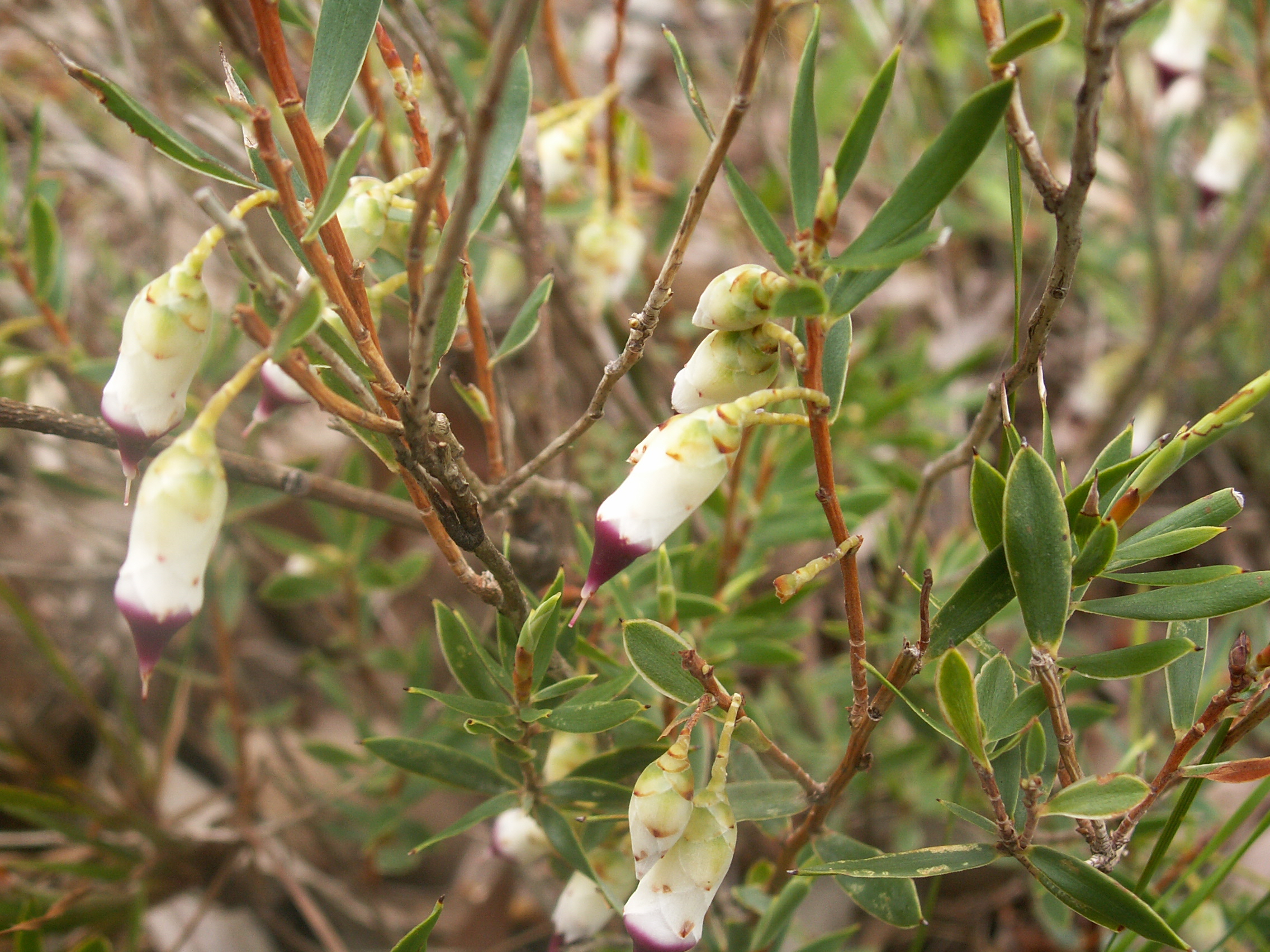 Pearl Flower; Taken near Bunbury